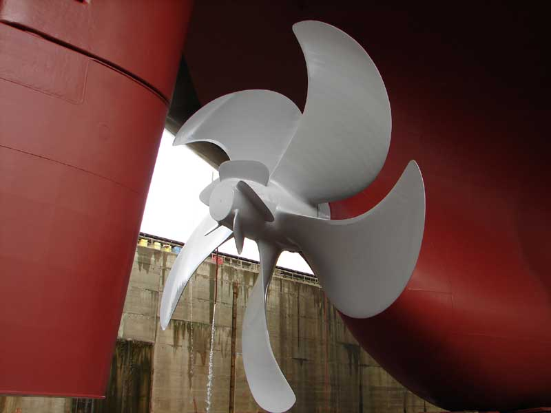 The propeller of the ship Sokoto, fitted with Propeller Boss Cap Fins designed to reduce hub vortex.